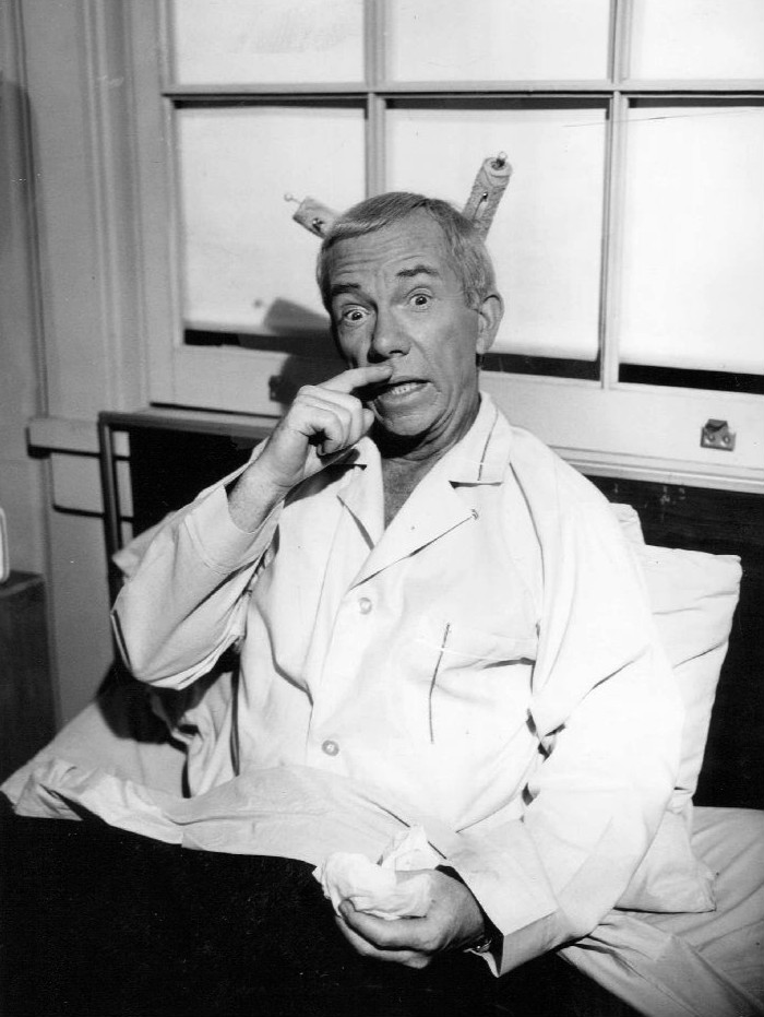 Photo of Ray Walston as Uncle Martin from the television program My Favorite Martian.